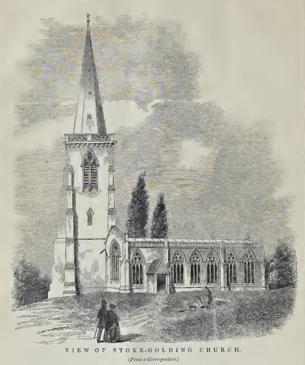 Illustration of the parish church of Saint Margaret, Stoke Golding, Leicestershire, 1844 from The Builder, volume 2, number LXIV, 27 April 1844